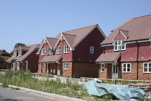 Newpound Lane. New houses on the edge of Wisborough Green.